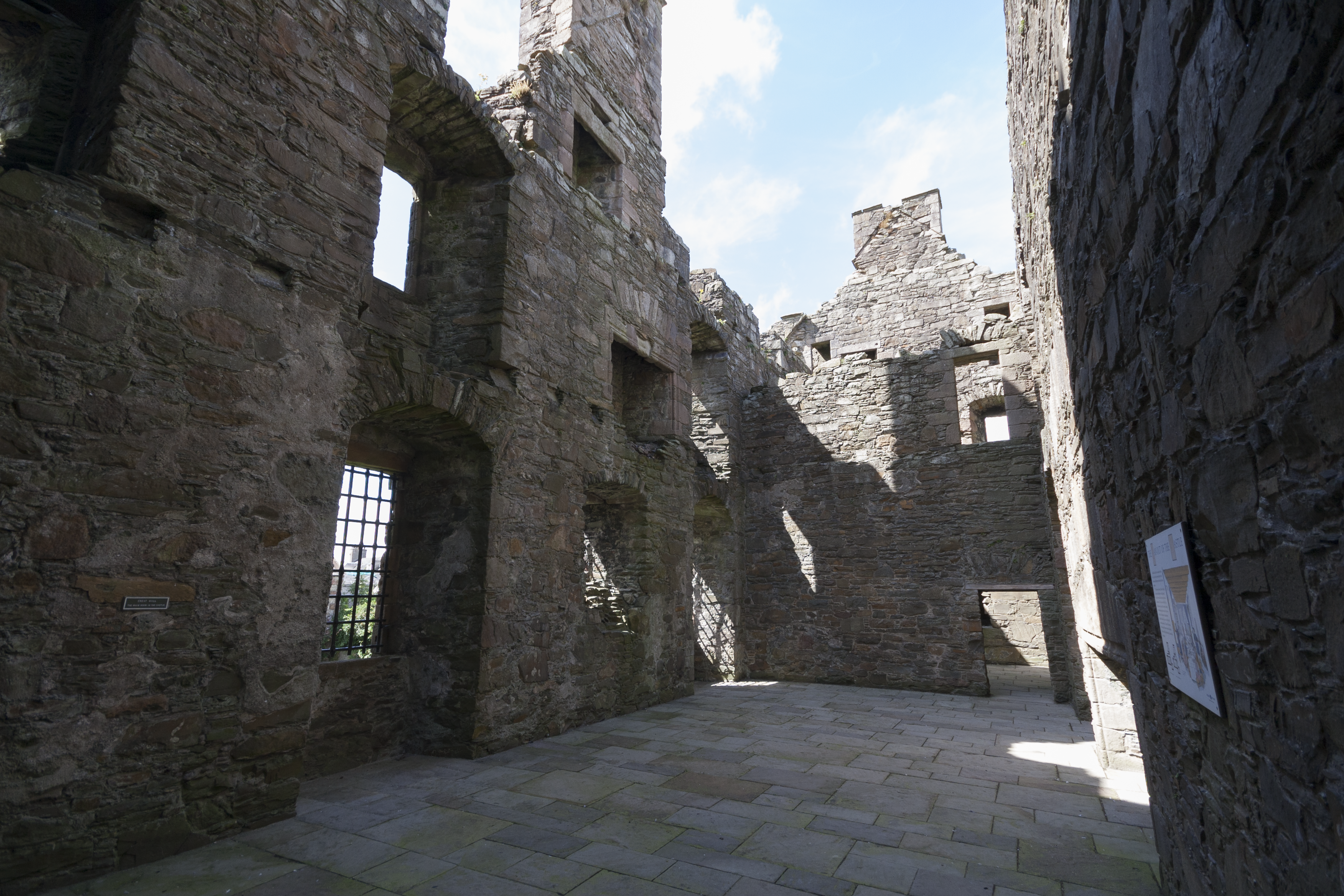 The great hall of MacLellan's Castle, looking towards the north end. Through the doorway beyond the hall is a private chamber. In the bottom right is a fireplace.